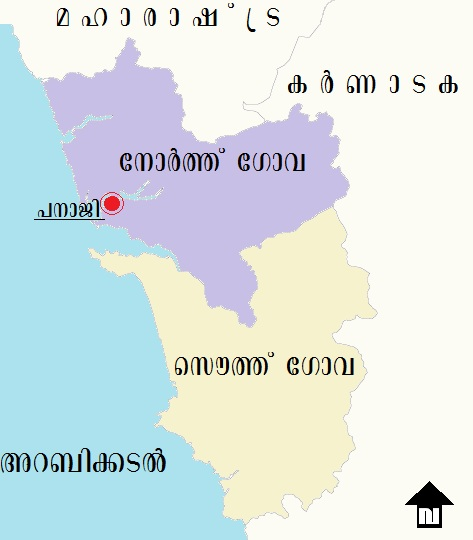 map of goa